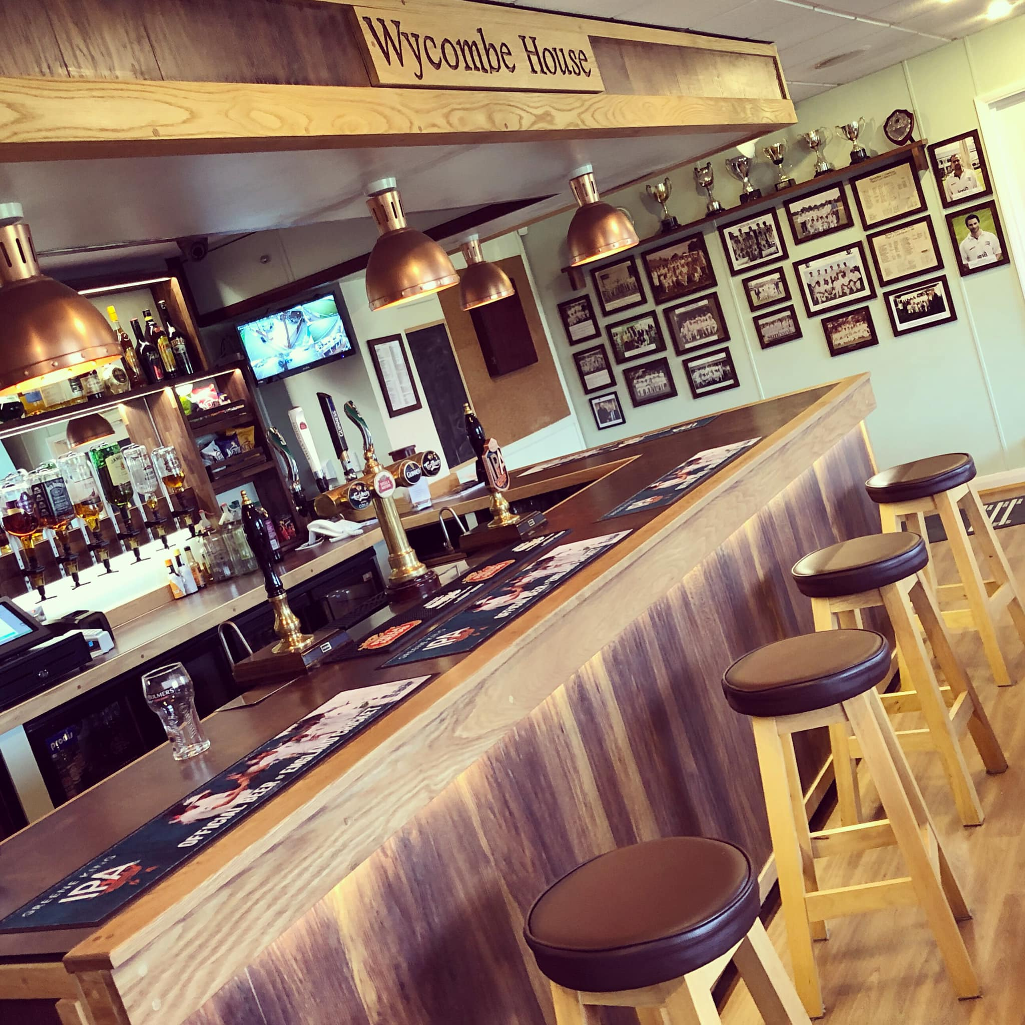 Wycombe House Sports & Social Club - Bar Area